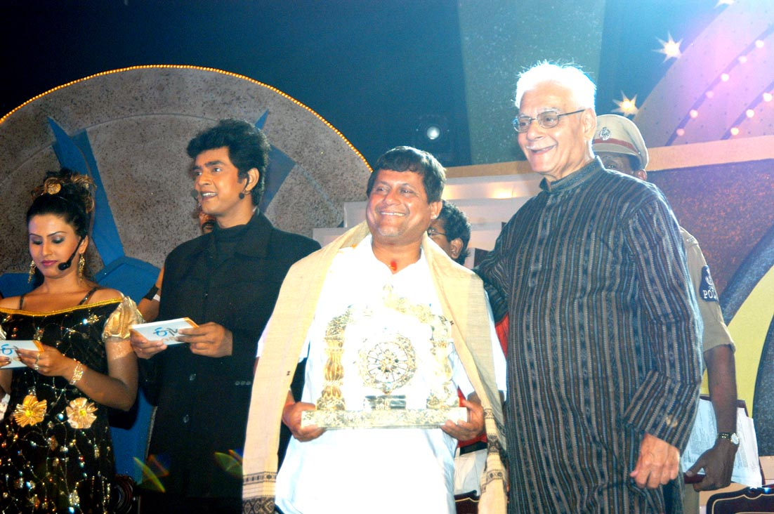 priya odiya. Achyuta Samanta